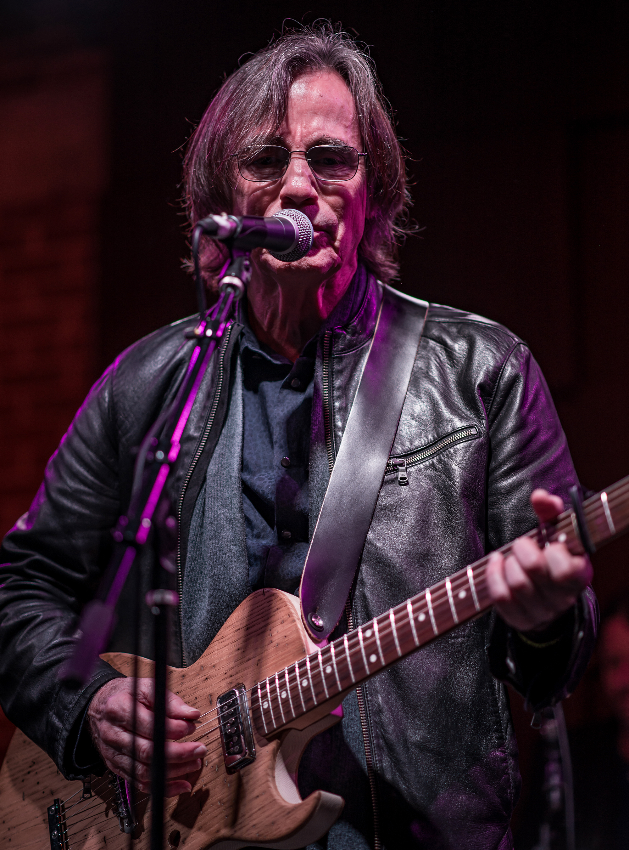 Jackson Browne performing live at the Unsung Heroes tribute, January 2017.